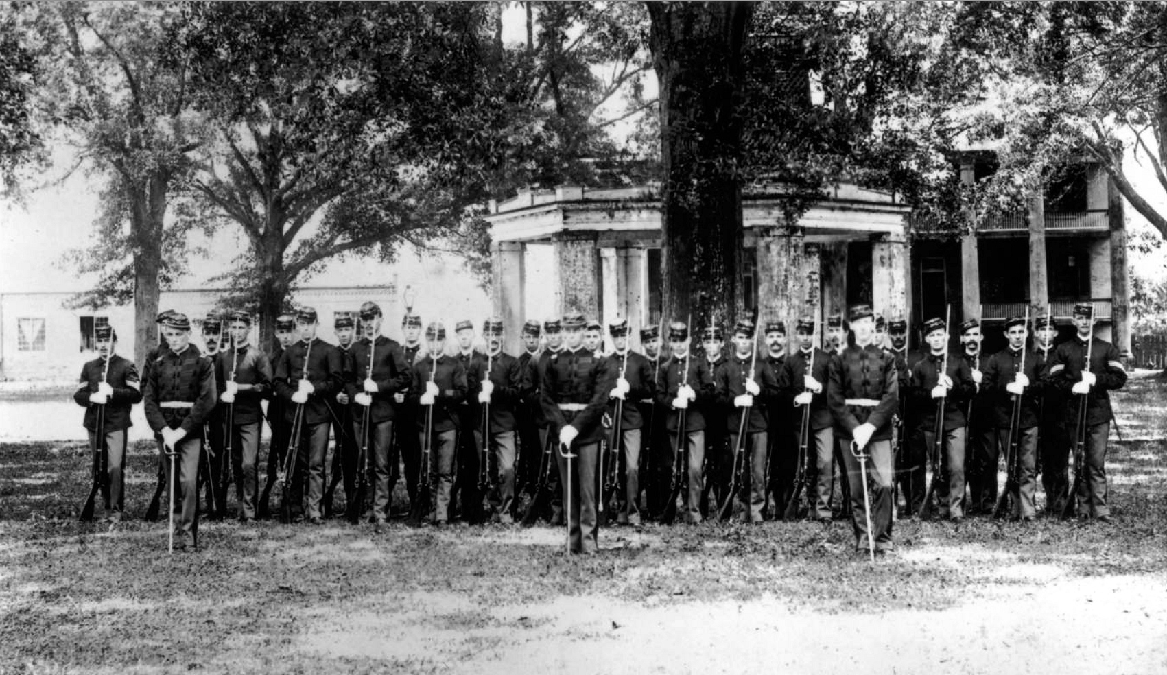 Formation of Union Soldiers during the occupation of Baton Rouge, Louisiana in the American Civil War